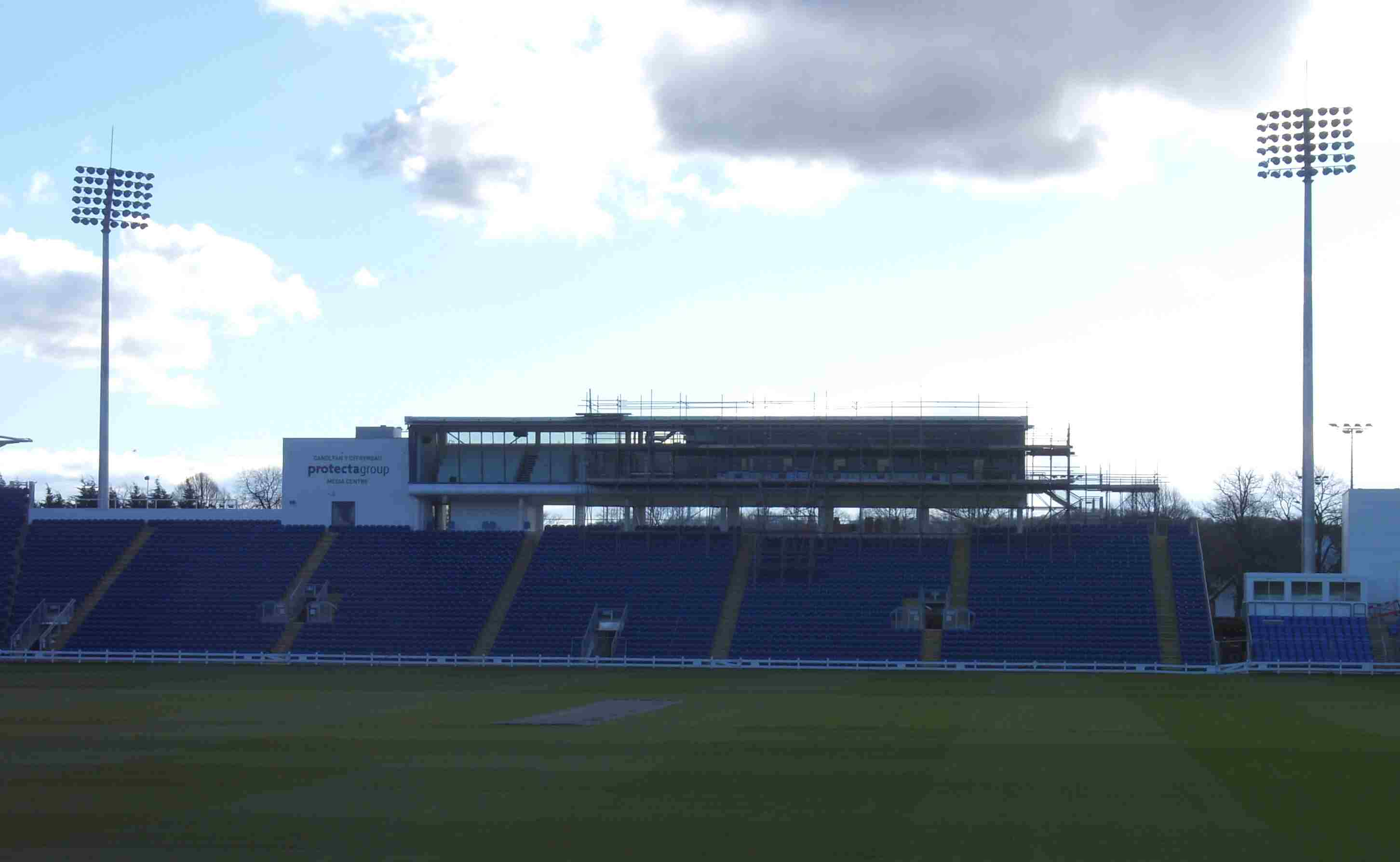 Media Centre at SWALEC Stadium